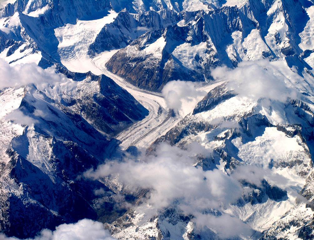 Der Unteraargletscher, der grössere der beiden Quellgletscher der Aare im Berner Oberland.